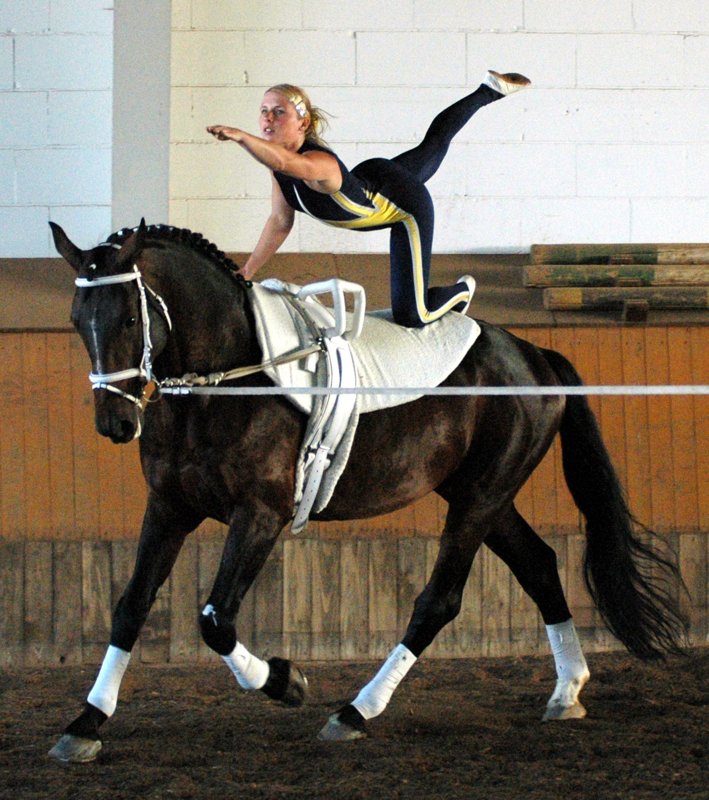 Flag